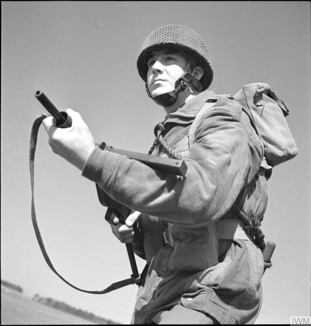 Private Roland Smith, 8th Parachute Battalion, 1st Airborne Division poses with his Sten gun at Bulford, 3 May 1943.